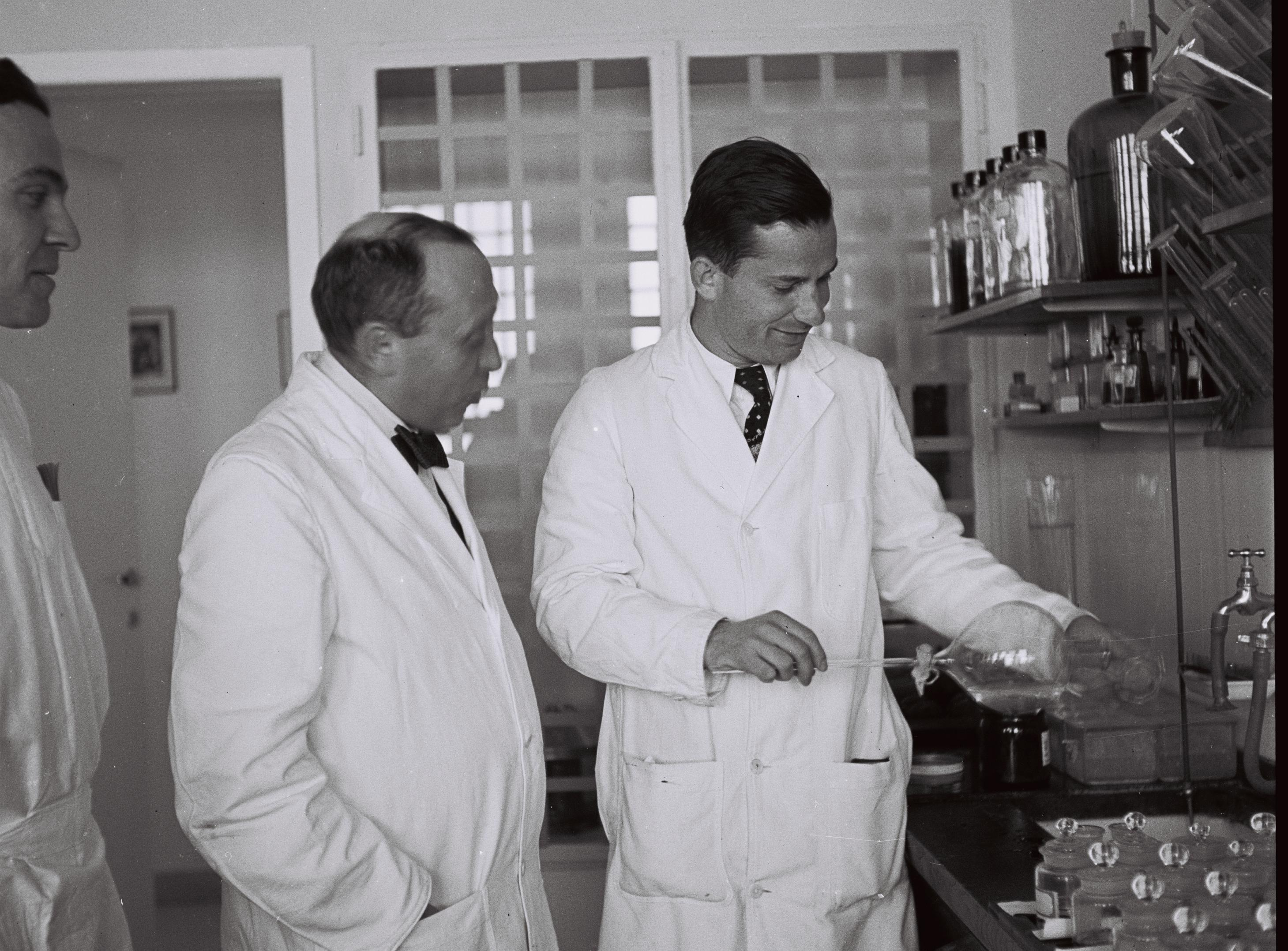 PROF. ZONDEK WITH TWO STUDENTS IN THE INSTITUTE OF BIOLOGY OF THE HEBREW UNIVERSITY IN JERUSALEM. המכון לביולוגיה באוניברסיטה העברית בירושלים.